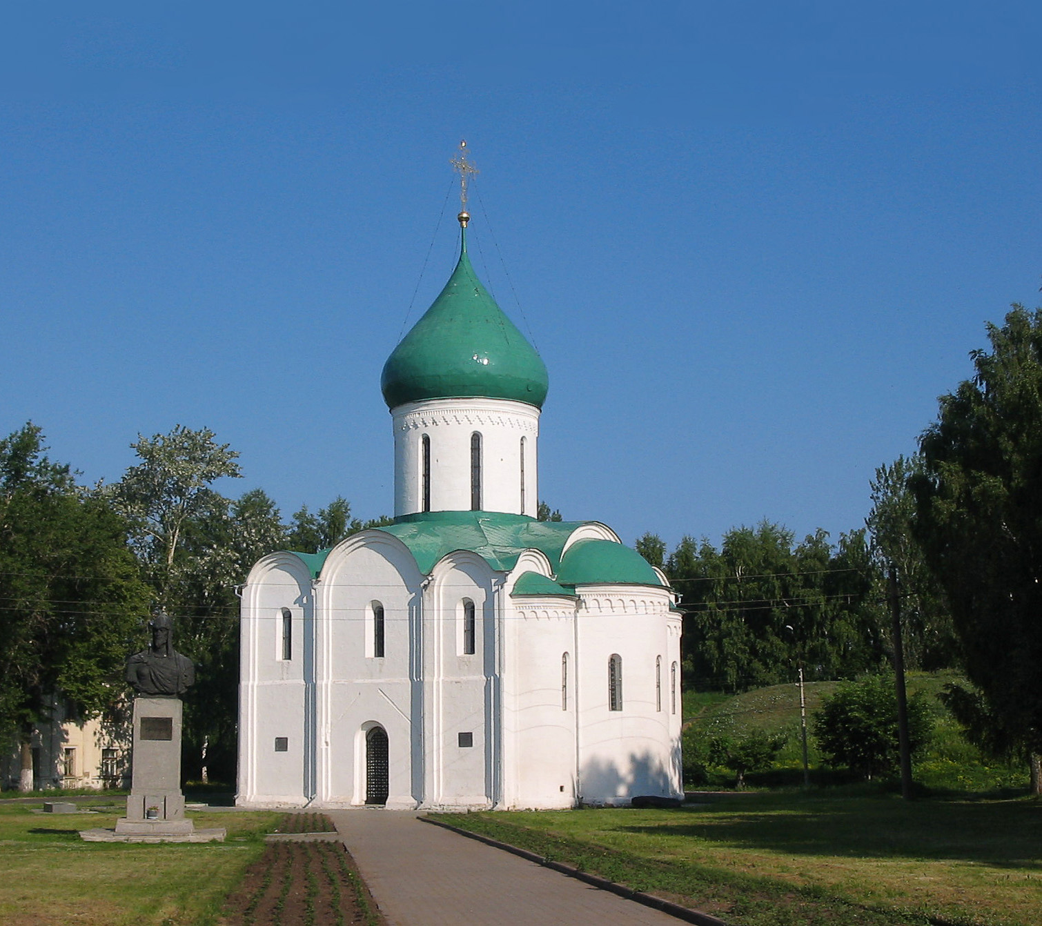 Spaso-Preobrazhensky Cathedral (XII c), Pereslavl-Zalessky, Russia